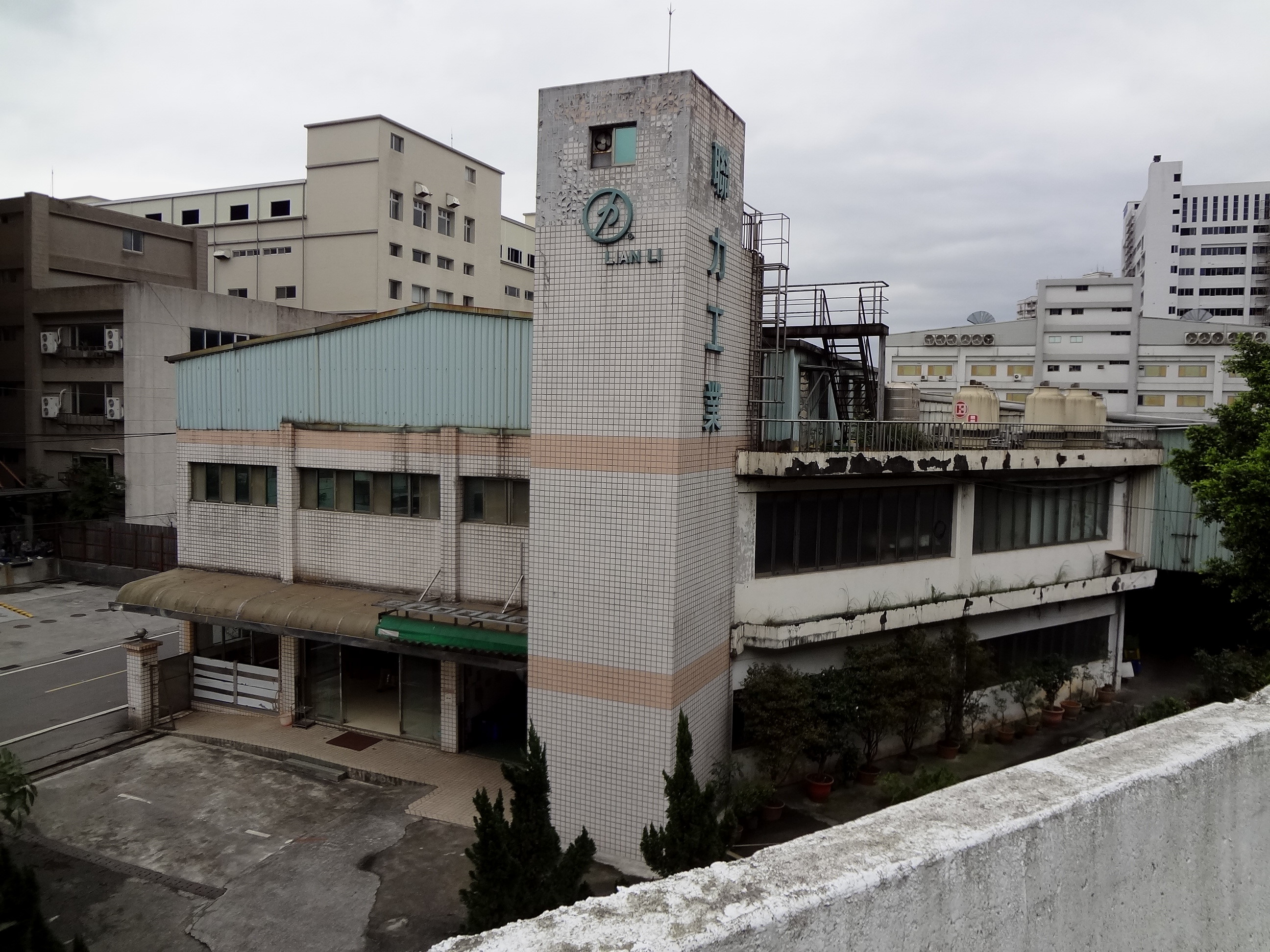 Lian Li Industrial headquarters in Qidu District, Keelung City, Republic of China.